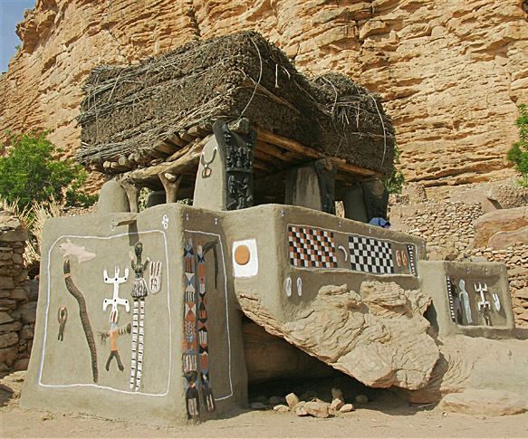 Mud building with 'mural' art and thatched roof — Dogon architecture in Mali. Dario Menasce - I.N.F.N. Milano